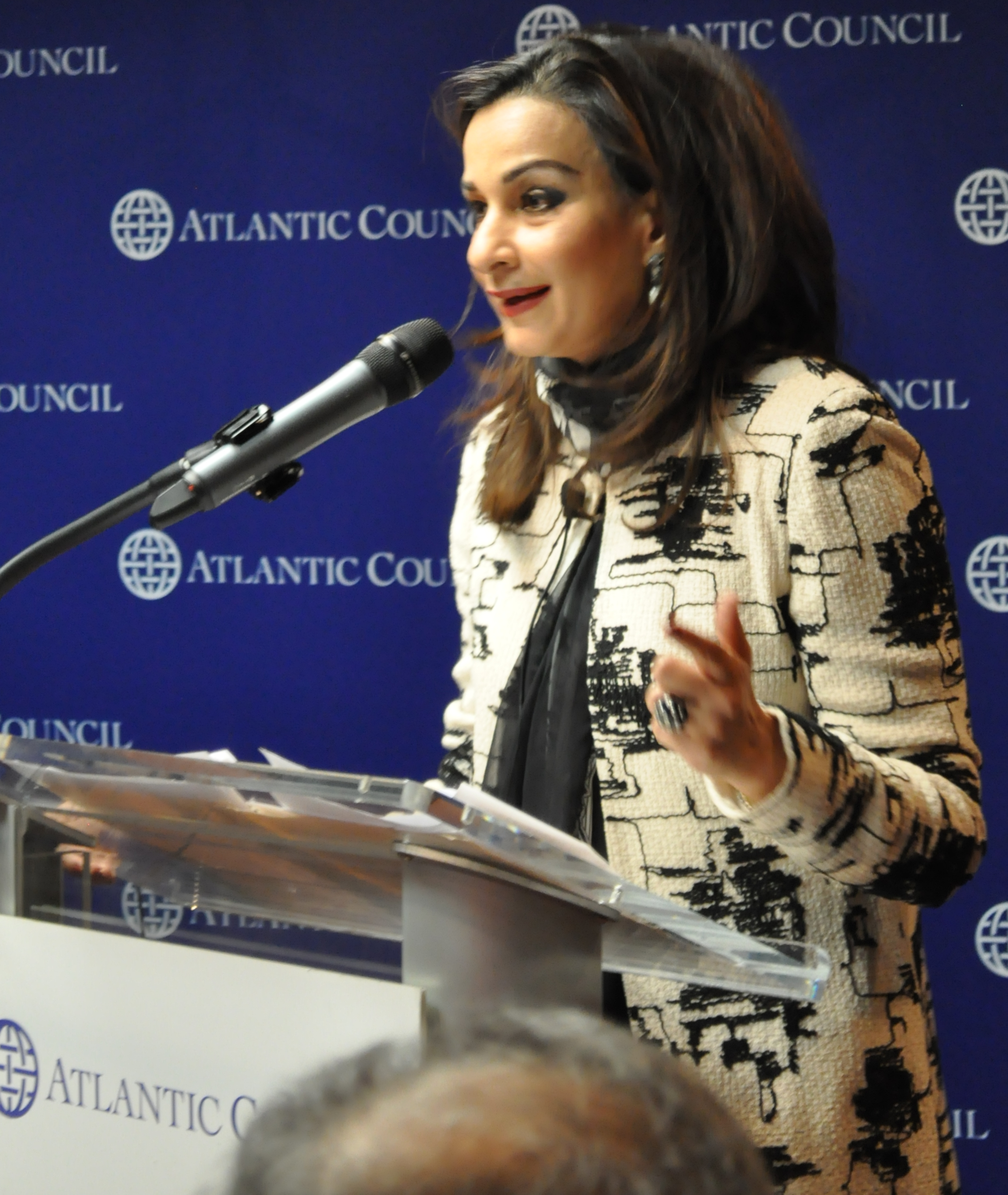 On February 26, the Atlantic Council’s South Asia Center hosted a conversation with Her Excellency Sherry Rehman, Pakistan ambassador to the United States. South Asia Center Director Shuja Nawaz moderated the discussion.